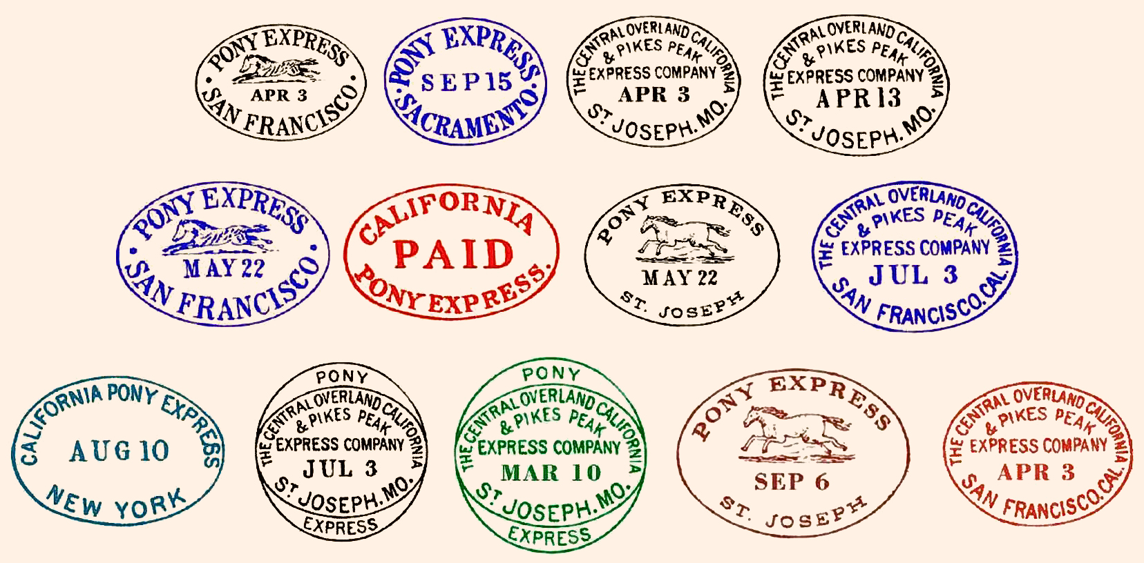 Assortment of Postmarks used on Pony Express mail.